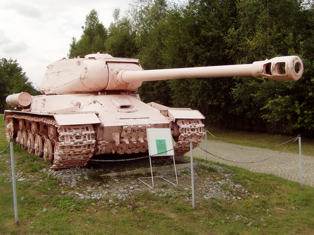 The famous pink IS-2, formerly tank No.23, located at the entrance to the museum in Lešany.